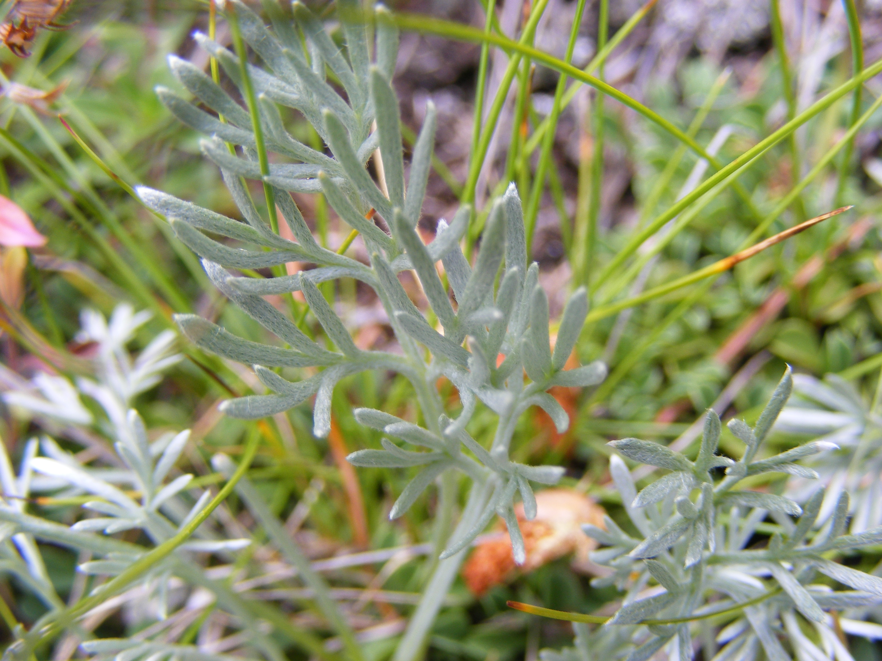 This photo shows Campanula scheuchzeri Close up of leaves